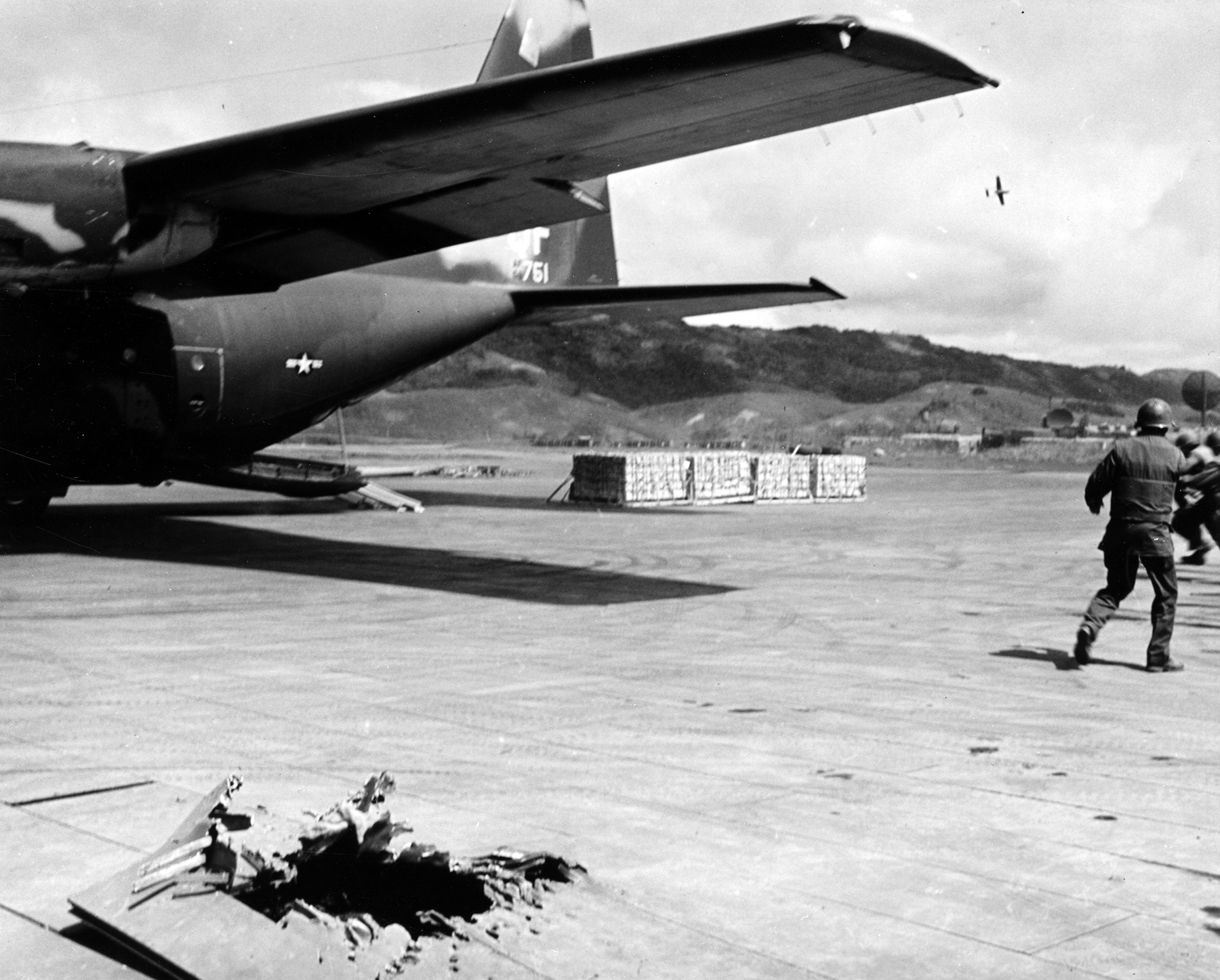 U.S. Marines rush to unload cargo from a U.S. Air Force Lockheed C-130B Hercules (s/n 58-0751) of the 772nd Tactical Airlift Squadron, 463rd Tactical Airlift Wing, at Khe Sanh while a forward air controller (FAC) flies cover in a Cessna O-2 Skymaster in the background. The FAC could quickly call in close air support to keep the enemy from firing mortar rounds at the C-130. Note the hole left in the ramp by a mortar.